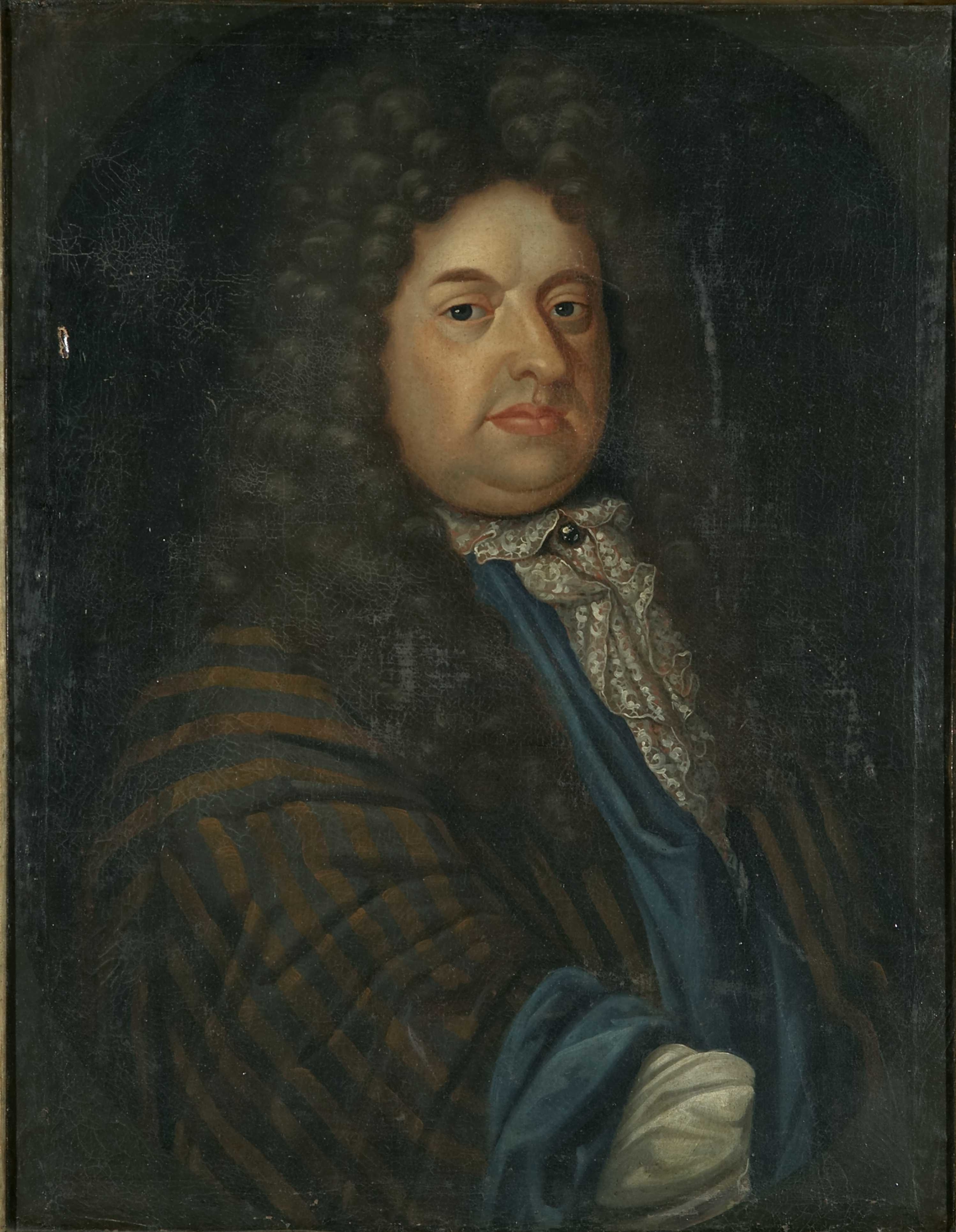 Portrait of Eggert Stockfleth (d.1638), merchant in Drammen, Norway. Born in Haderslev, Denmark. His right arm amputated as shown on painting.